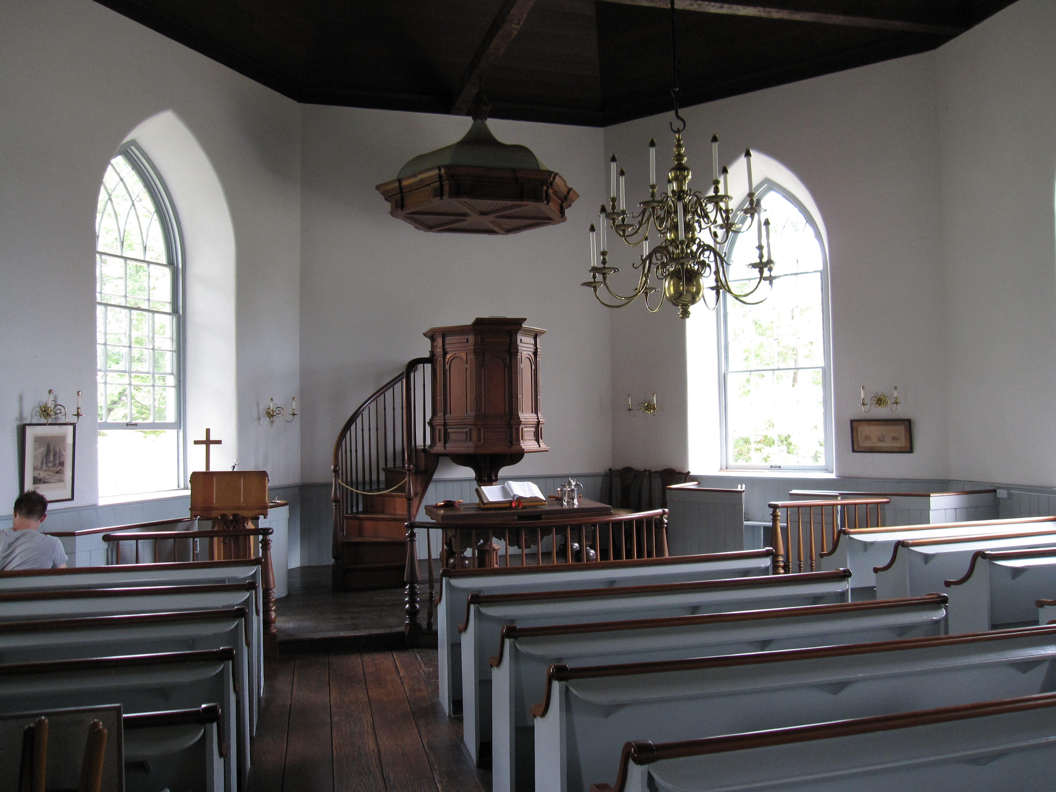 Old Dutch Church of Sleepy Hollow